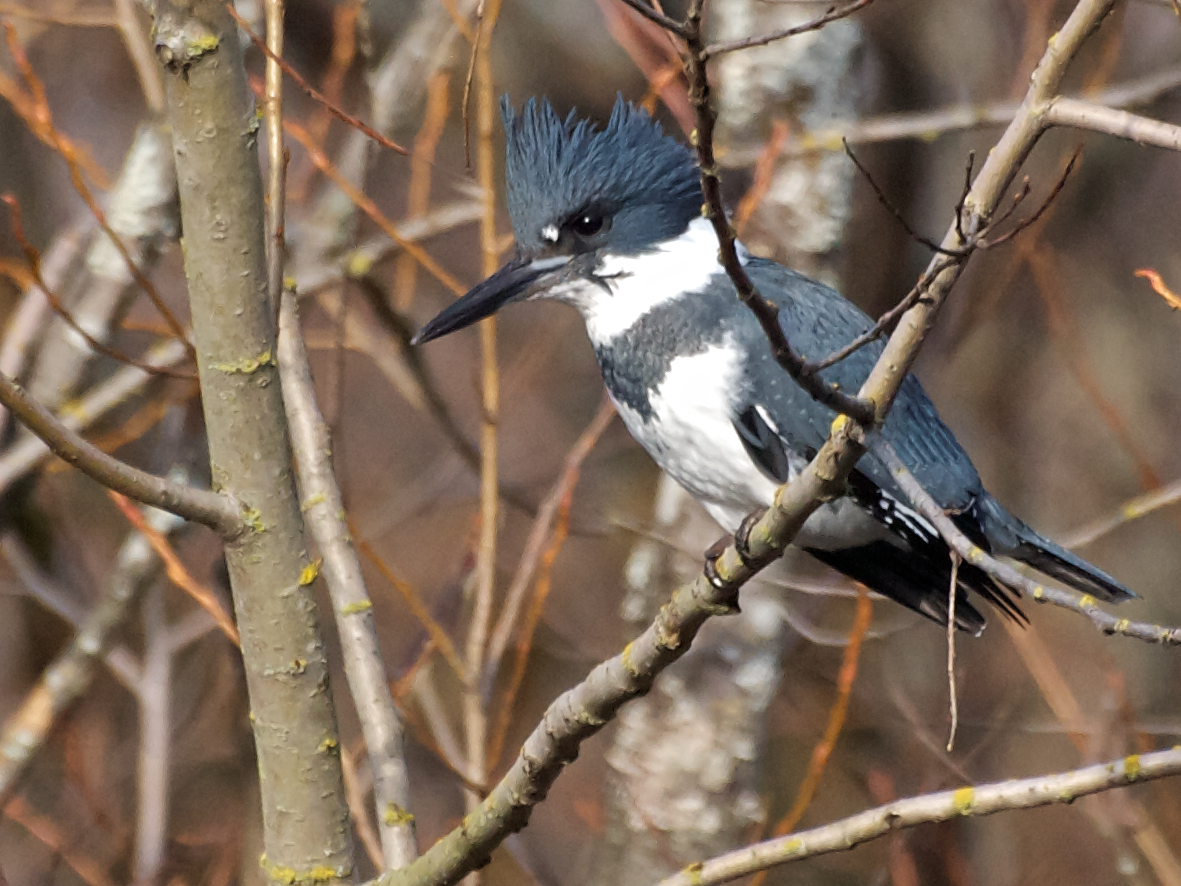 A male Belted Kingfisher at Washington Park Arboretum, Seattle, Washington, USA.